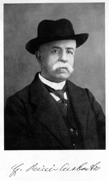 Photography of Gregorio Ricci-Curbastro.